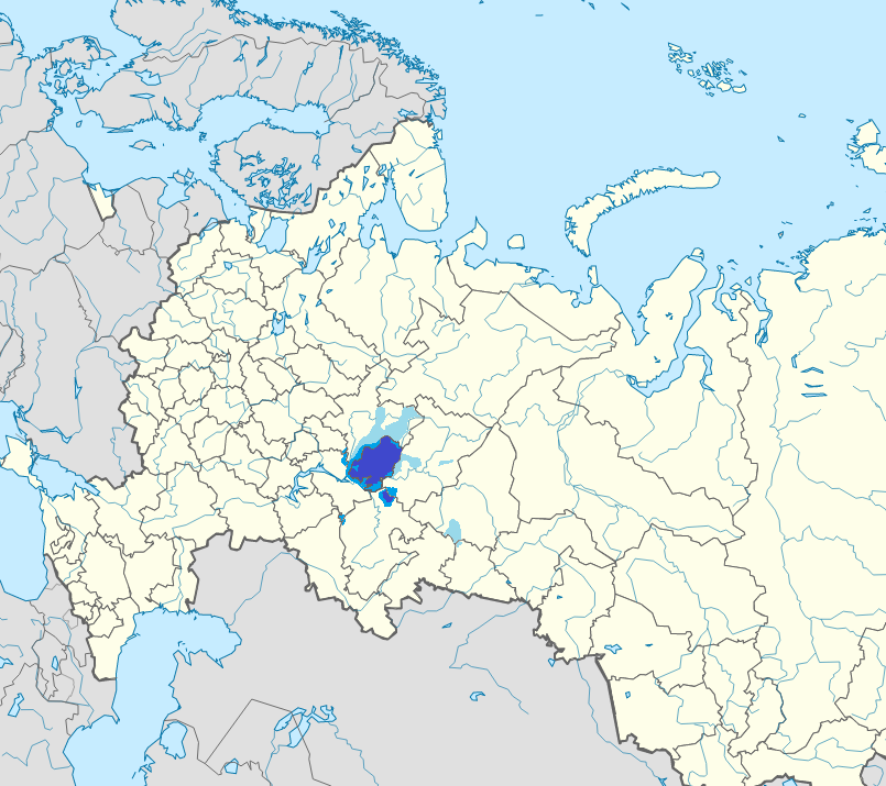 Udmurt